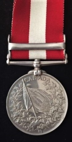 Canada General Service Medal, 1866-70 reverse side